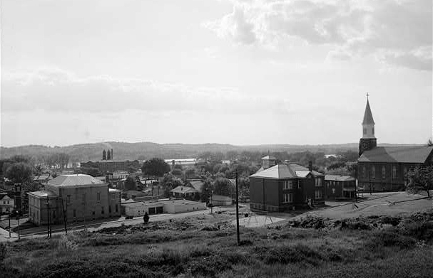 This is a view of the city of Cannelton, looking southwest toward the Ohio River, taken in 1974 by Jack E. Boucher for the Historic American Engineering Record. It is no. 21 in a series of 42 photos taken to document the Cannelton Cotton Mill. The twin towers of the mill are visible in the distance. GENERAL VIEW FROM NORTHEAST OVER CITY SHOWING CANNELTON MILL AND RIVER IN THE DISTANCE TITLE: Cannelton Cotton Mill, Front & Fourth Streets, Cannelton, Perry County, IN CALL NUMBER: HAER IND,62-CANN,2-21 REPRODUCTION NUMBER: [See Call Number] MEDIUM: Measured Drawing(s): 8 (24 x 36 in.) Photo(s): 42 (4 x 5 in. and 5 x 7 in.) Data Page(s): 11 plus cover page Color Transparencies: 4 DATE: Documentation compiled after 1968. CREATOR: Historic American Engineering Record, creator RELATED NAME(S): Tallman & Bucklin Buchanan, George James, Charles T. McGregor, Alexander Newcomb, Horatio Dalton Smith, Hamilton NOTE: Survey number HAER IN-1 Field note material exists for this structure (FN18). Building/structure dates: 1851 initial construction National Register Number: 75000011 SUBJECTS: INDIANA--Perry County--Cannelton cotton mills OTHER TITLE: Indiana Cotton Mills COLLECTION: Historic American Engineering Record (Library of Congress) REPOSITORY: Library of Congress, Prints and Photograph Division, Washington, D.C. 20540 USA DIGID: [1] CONTENTS: Photograph caption(s): 21. GENERAL VIEW FROM NORTHEAST OVER CITY SHOWING CANNELTON MILL AND RIVER IN THE DISTANCE CARD #: IN0117 Category:Perry County